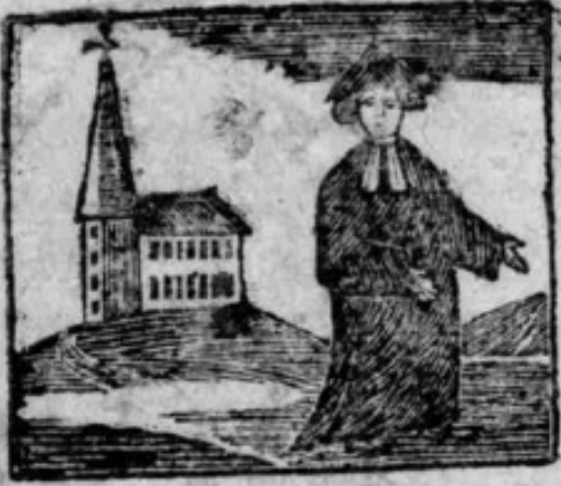 Father Abbey's Will. To which is added, a letter of courtship, to his most amiable widow. Cambridge, December, 1791